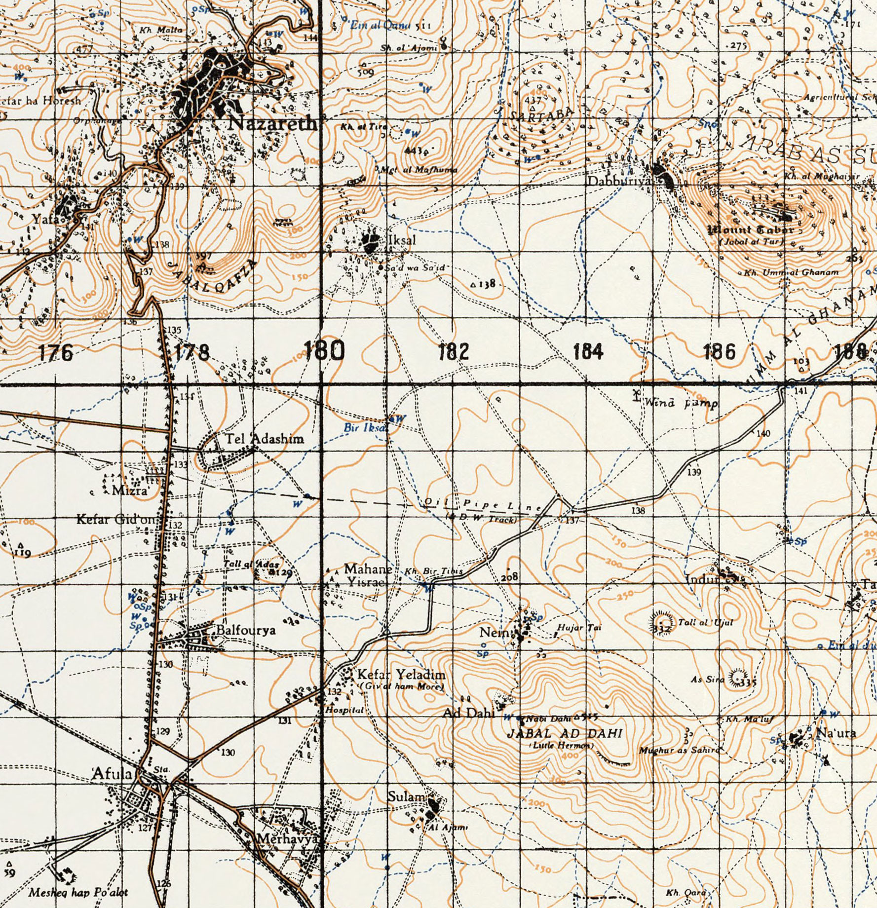 Map of region to the southwest of Nazareth in 1937, roads corrected to 1939.